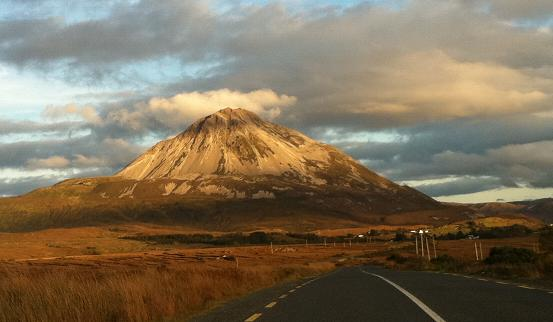 Mount Errigal, Co Donegal, Ireland